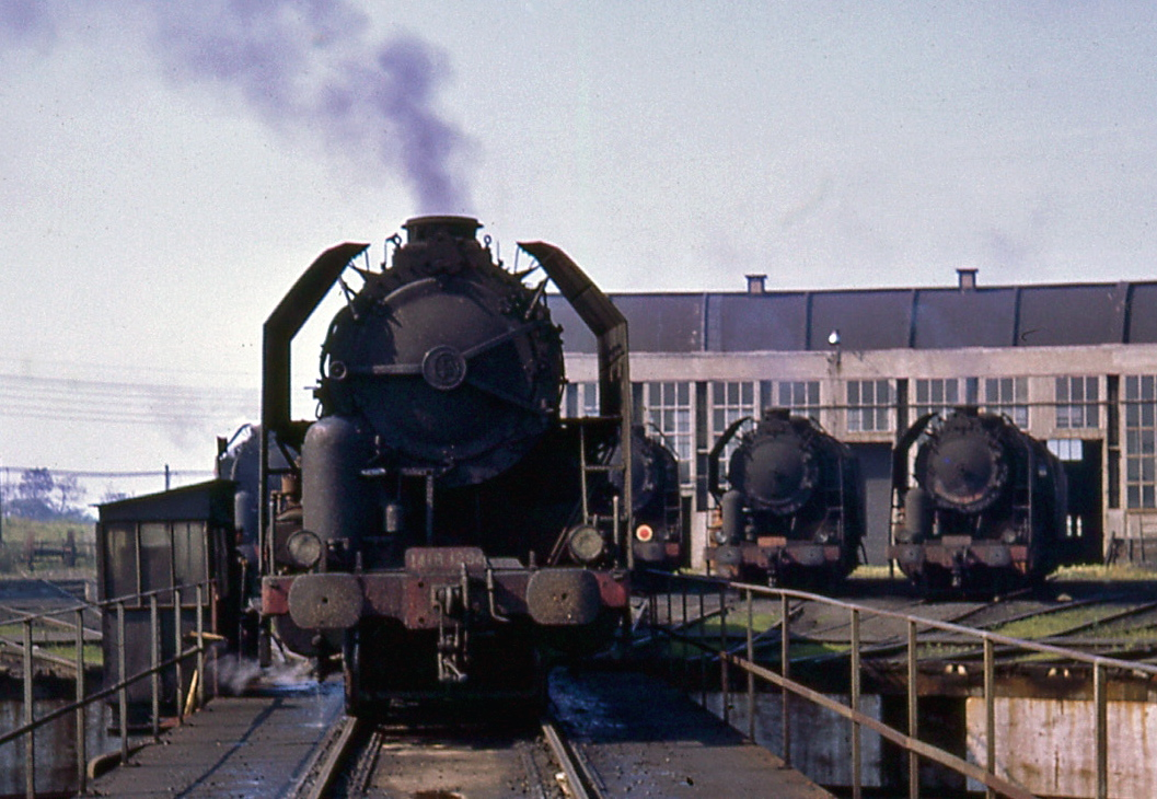 SNCF 141Rs at Calais loco shed, 1968